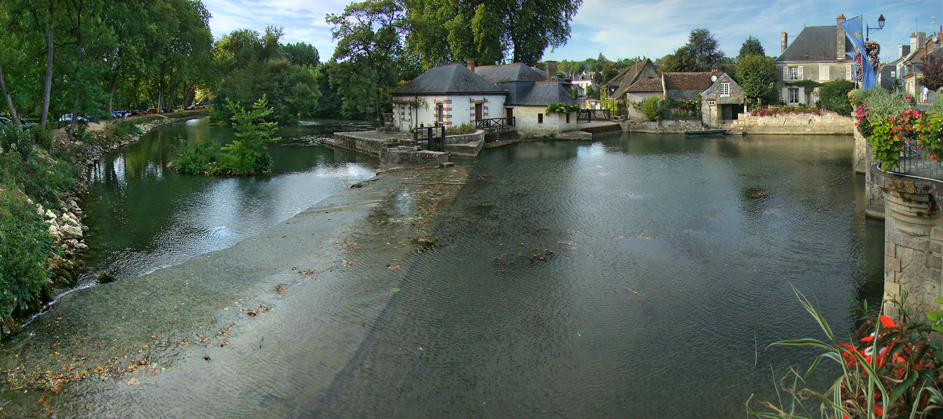 Azay-le-Rideau, Indre-et-Loire, Centre, France. Late afternoon on the shore of the Indre river.